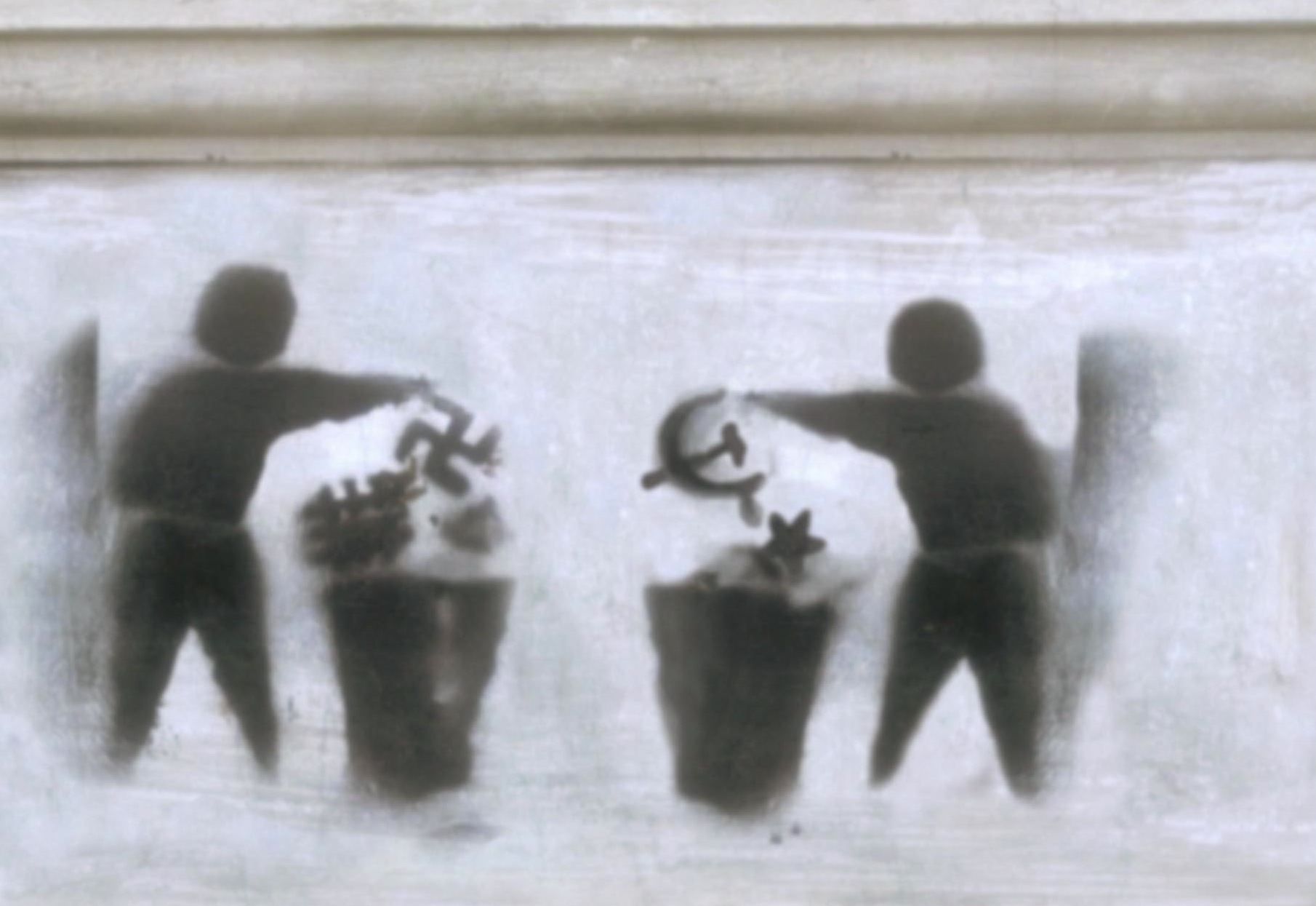 Tag on a wall in Bucharest (2013)